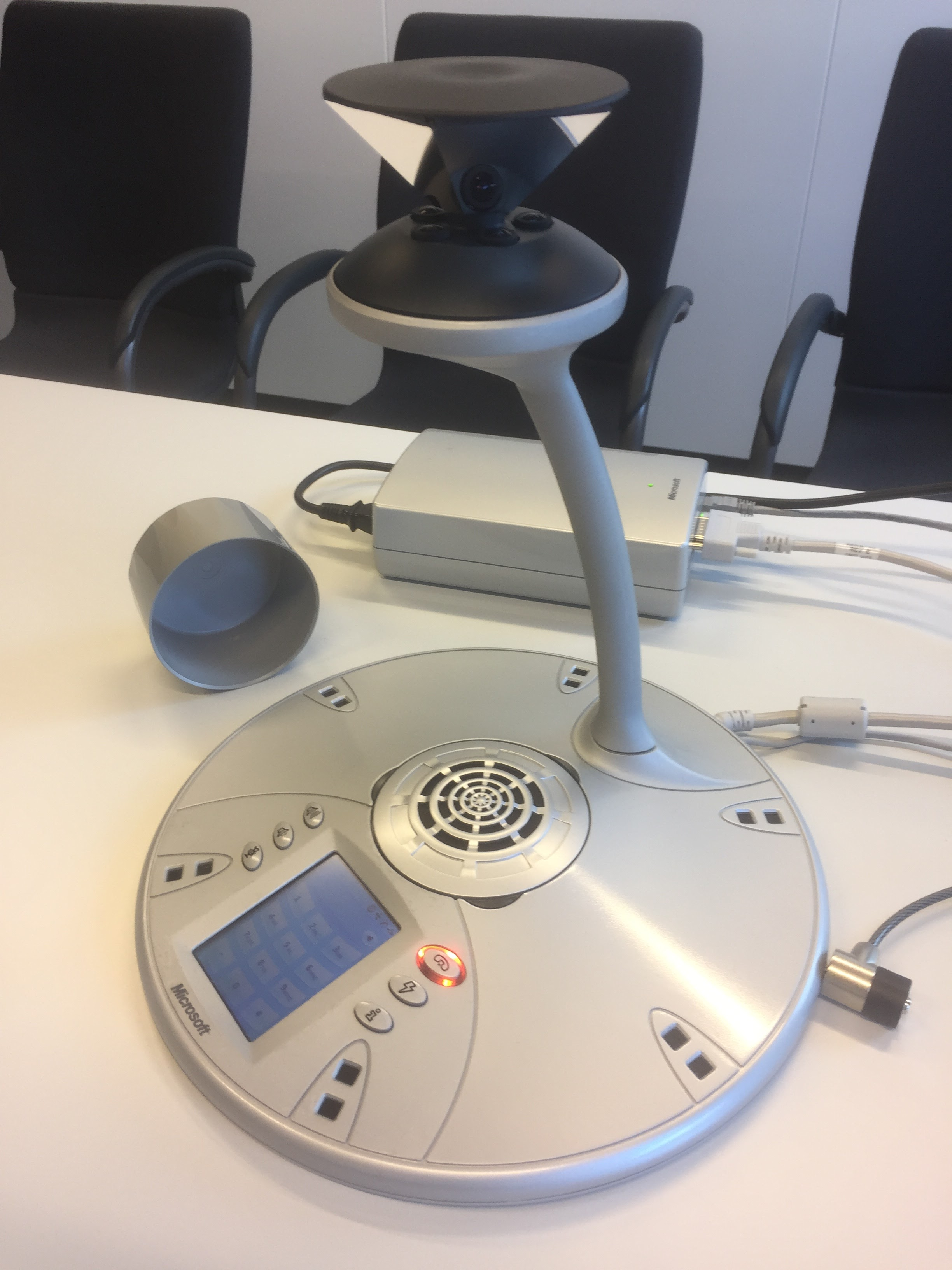 Microsoft RoundTable was a videoconferencing device with a 360-degree camera that was designed to work with Microsoft Office Communications Server 2007 or Microsoft Office Live Meeting.